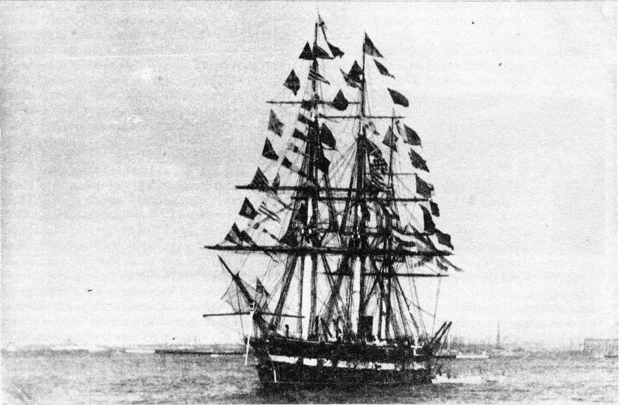 Imperial Russian frigate Swetlana.